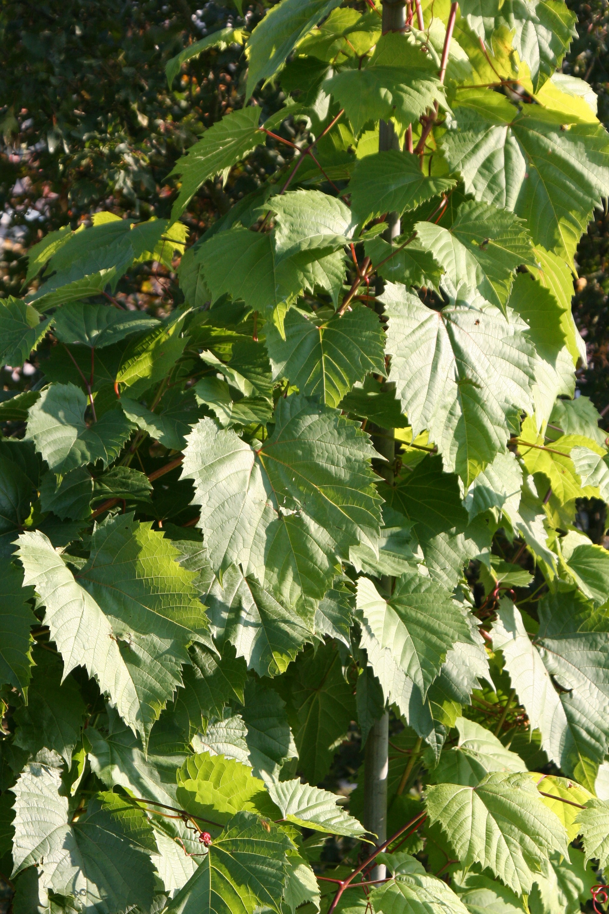 Leaves of Vitis riparia, photographed at the viticulture trail on the Schemelsberg hill in Weinsberg